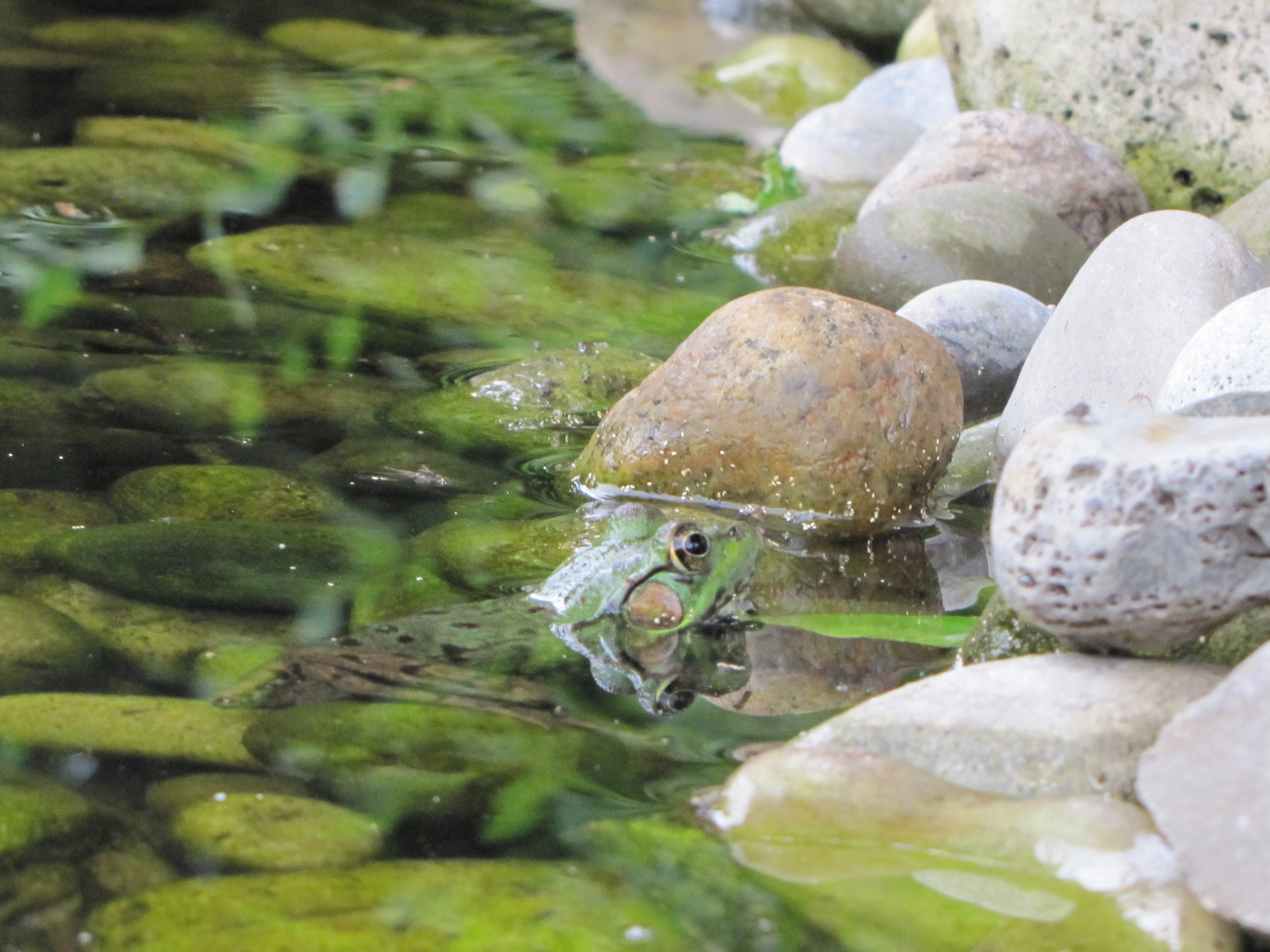 Frog in Japanese Garden reflecting pool in Guelph Arboretum